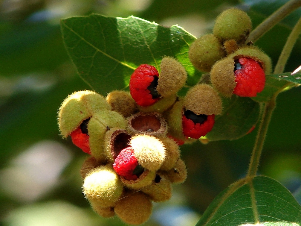 Alectryon tomentosus Common Names: Hairy alectryon, Woolly rambutan, Hairy bird's eye It is one of the few australian rainforest trees to fruit heavily in winter "The fruit is a brown hairy capsule, 1-3 lobed, opening to reveal the red aril and shiny black (seeds). The red fleshy aril is edible. The photo taken in Brisbane.